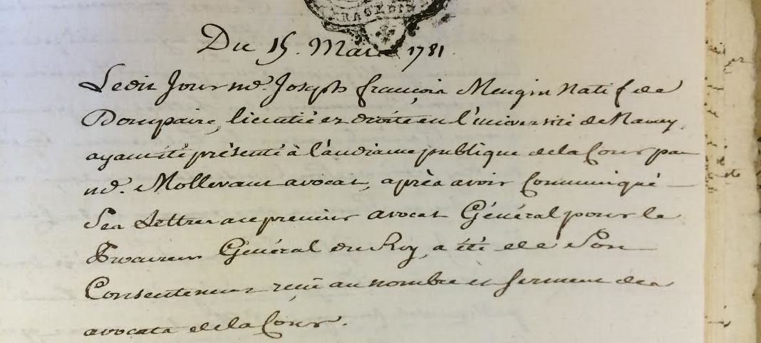 Joseph François Mangin's law degree (1781)